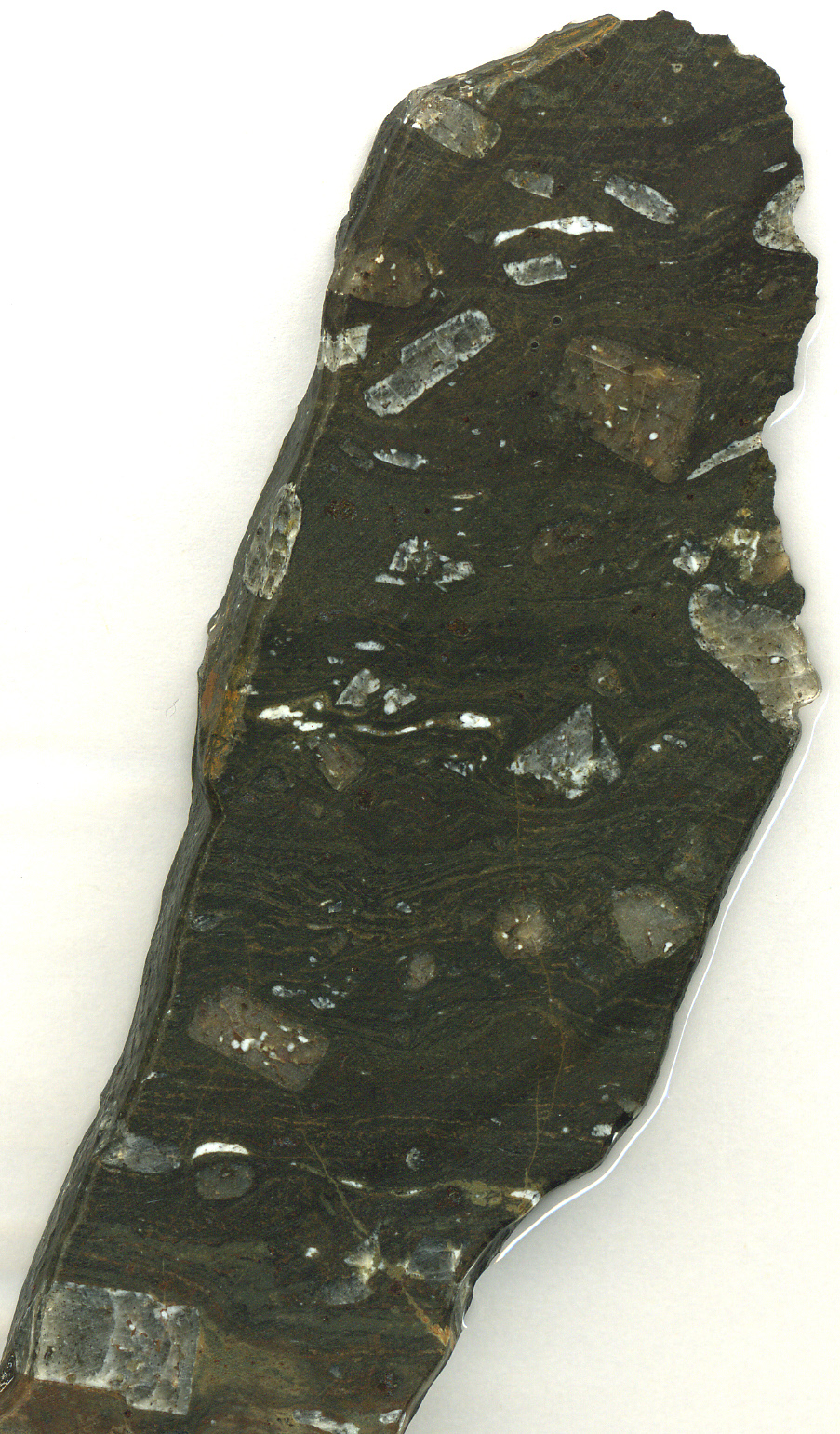 Kenyte from Mount Kenya. This kenyte sample is a type of phonolite lava with phenocrysts of anorthoclase in a glassy, often flow-banded groundmass. This sample is 102 millimetres long and 42 millimetres wide. The lava was formed during the Pleistocene epoch.